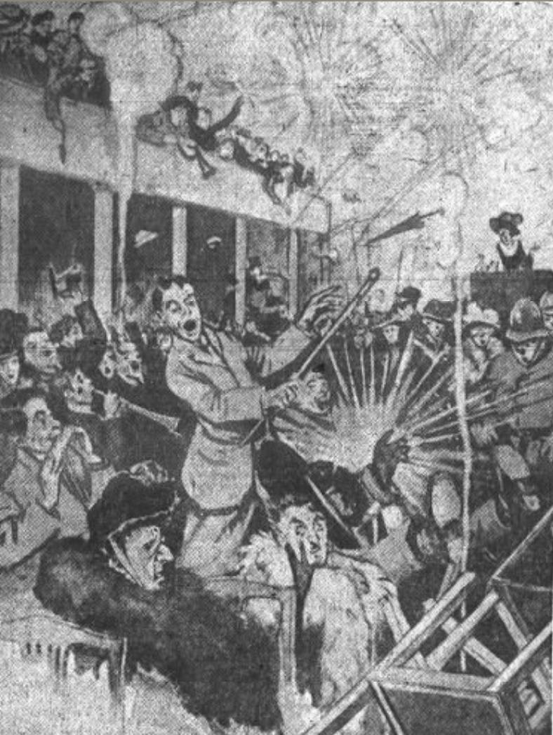 Depiction of meeting organized by Lizzy Lind af Hageby in London on 11 December 1906 at Acton Central Hall to discuss the Brown Dog affair. Medical students disrupted the meeting and let off stink bombs. This cartoon was reproduced by The Oregon Daily Journal in 1909. It is thought to have been published first in the Daily Chronicle, date unknown. The Oregon Daily Journal quotes the story from which they took the cartoon: "The rest of Miss Lind-af-Hageby's indignation was lost in a beautiful 'eggy' atmosphere that was now rolling heavily across the hall. 'Change your socks!' shouted one of the students." That quote is identified by Robert K. Ford, The Brown Dog and his Memorial, Euston Grove Press, 2013 [1908], 15–17, as having been published in the Daily Chronicle in 1906, in a story describing the Acton Central Hall meeting.